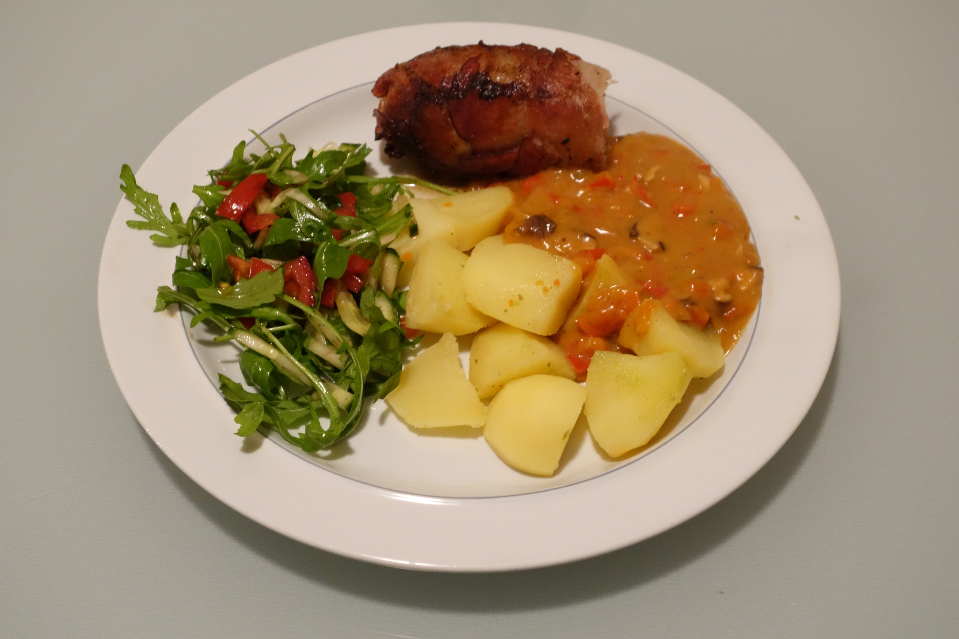 ★★★★☆ Slavink with potatoes and sweet pepper sauce